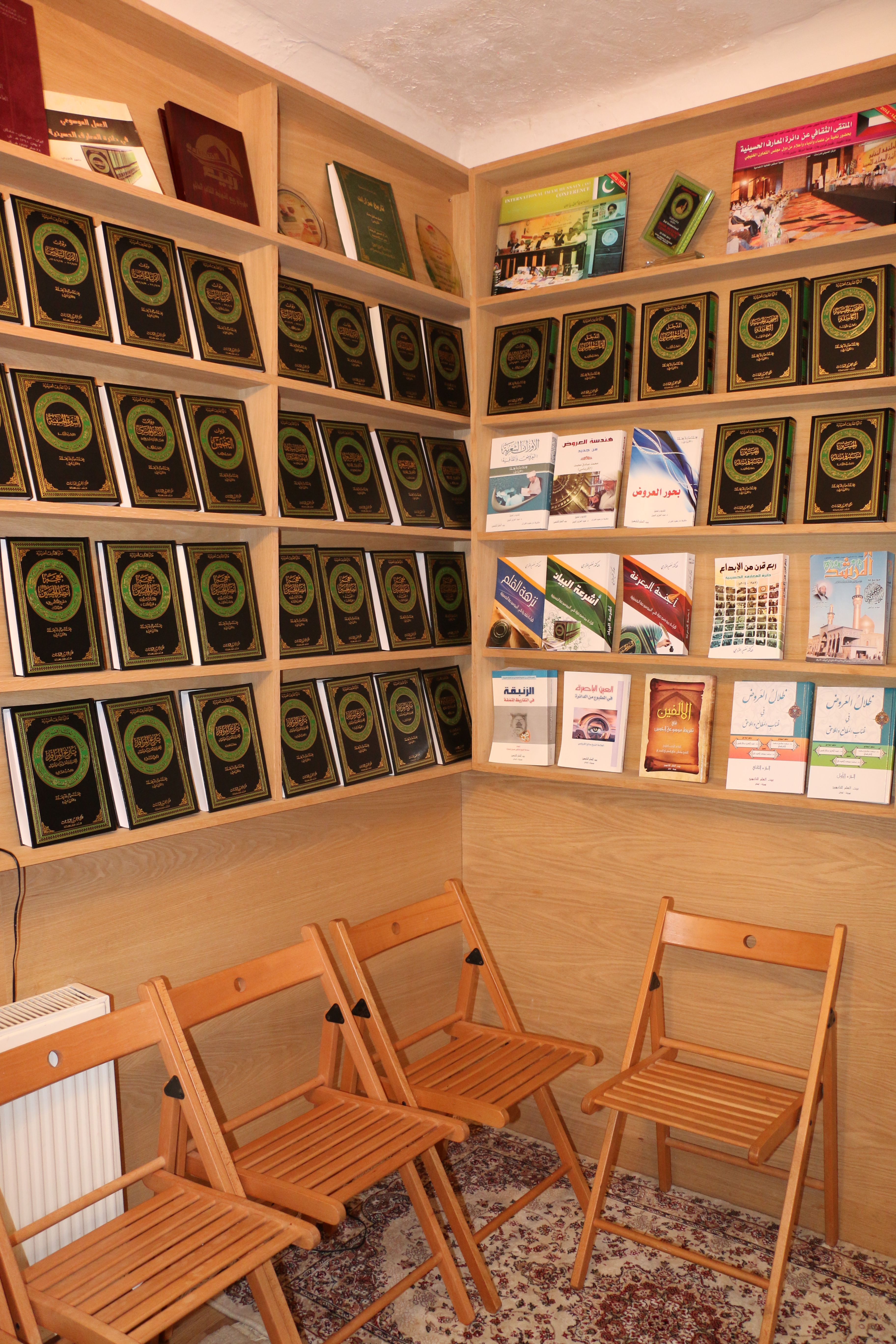 The Hussaini Centre for Research was established in London in 1993 (1414 H), Sheikh Mohammed Sadiq Mohammed Al-Karbassi used his home as the first base, and foundation for research as his office. There he welcomed politicians and journalists to his home. The centre has relocated to its current location in 2003. The Hussaini Centre Registered Charity in the UK. No: 1106596, under the title "The Hussaini Charitable Trust". The centre has a hall for general meetings, with rooms for studying, researching and translating texts. The centre receives many students looking to use its growing private library, which contains over 25,000 titles, specializing on topics of different scholars, with texts and archives in many languages. The centre stands alone when it comes to holding an entire specialized department containing handwritten and rare documents on different scientific and philosophical topics; the documents in this specialized department hold important historical and scientific value, some being hundreds of years old.